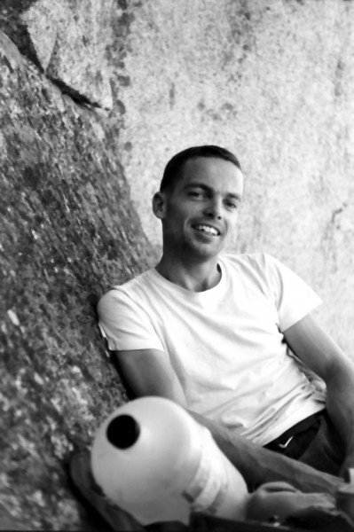 Tom Frost on the second ascent of The Nose route on El Capitan[1] in Yosemite Valley or atop the Lion Buttress on the North Wall of El Capitan[2].